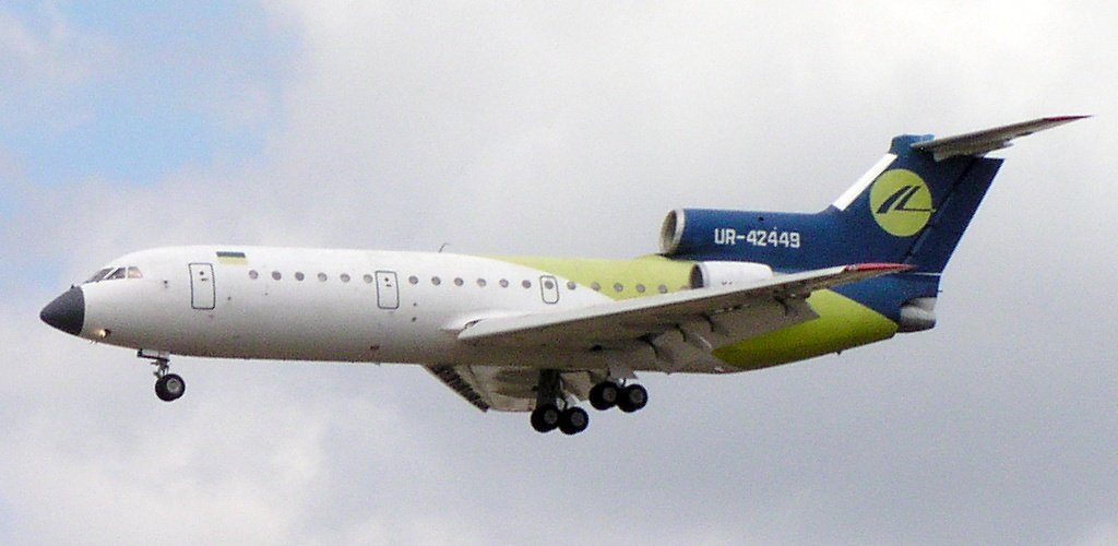 Description: Yakovlev Yak-42D Dnieproavia UR-42449 approaching Frankfurt/Main, July 2005. *Photographer: Arcturus *Licence: GFDL + cc-by-sa-2.0-de